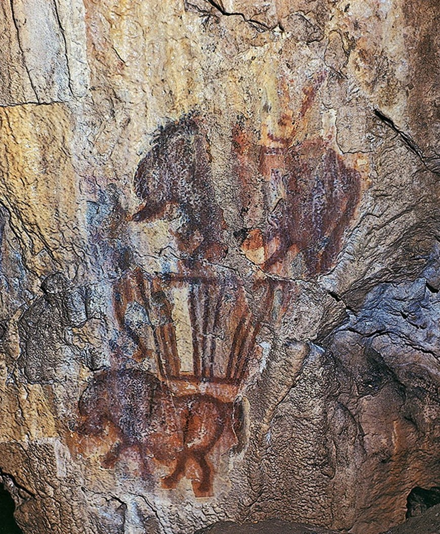 Kapova Cave Paintings - Horses